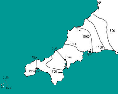 The shifting of the linguistic boundary in Cornwall 1300-1750. Author: Albert Bock Source: K. George, Cornish, in: M. Ball (ed.), The Celtic Languages, 1993.